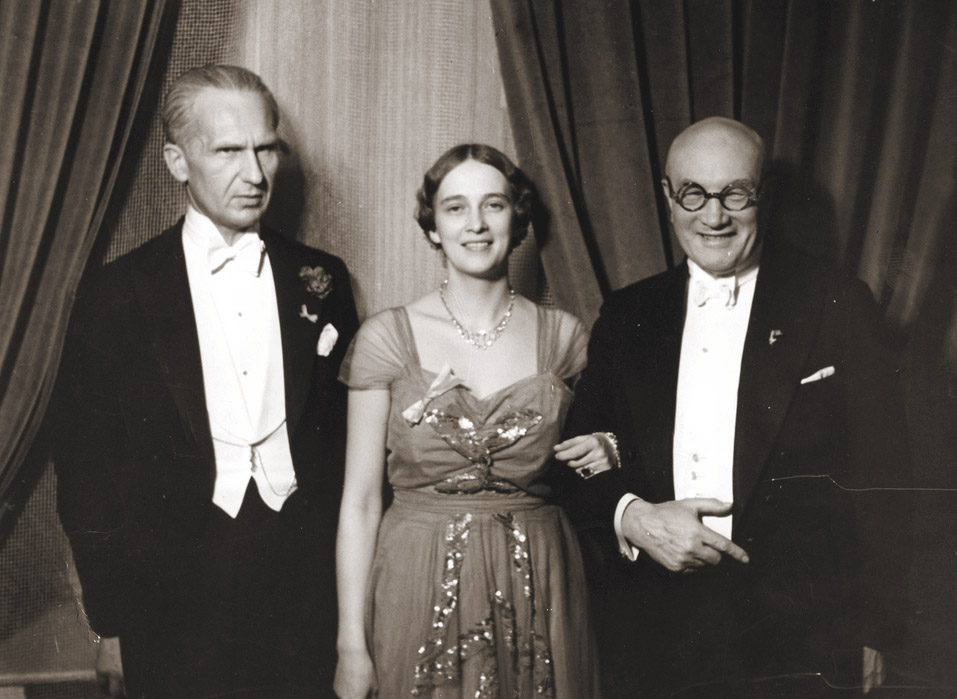 Wiktor Podoski, Maria Rotwand, Leon Janta-Połczyński